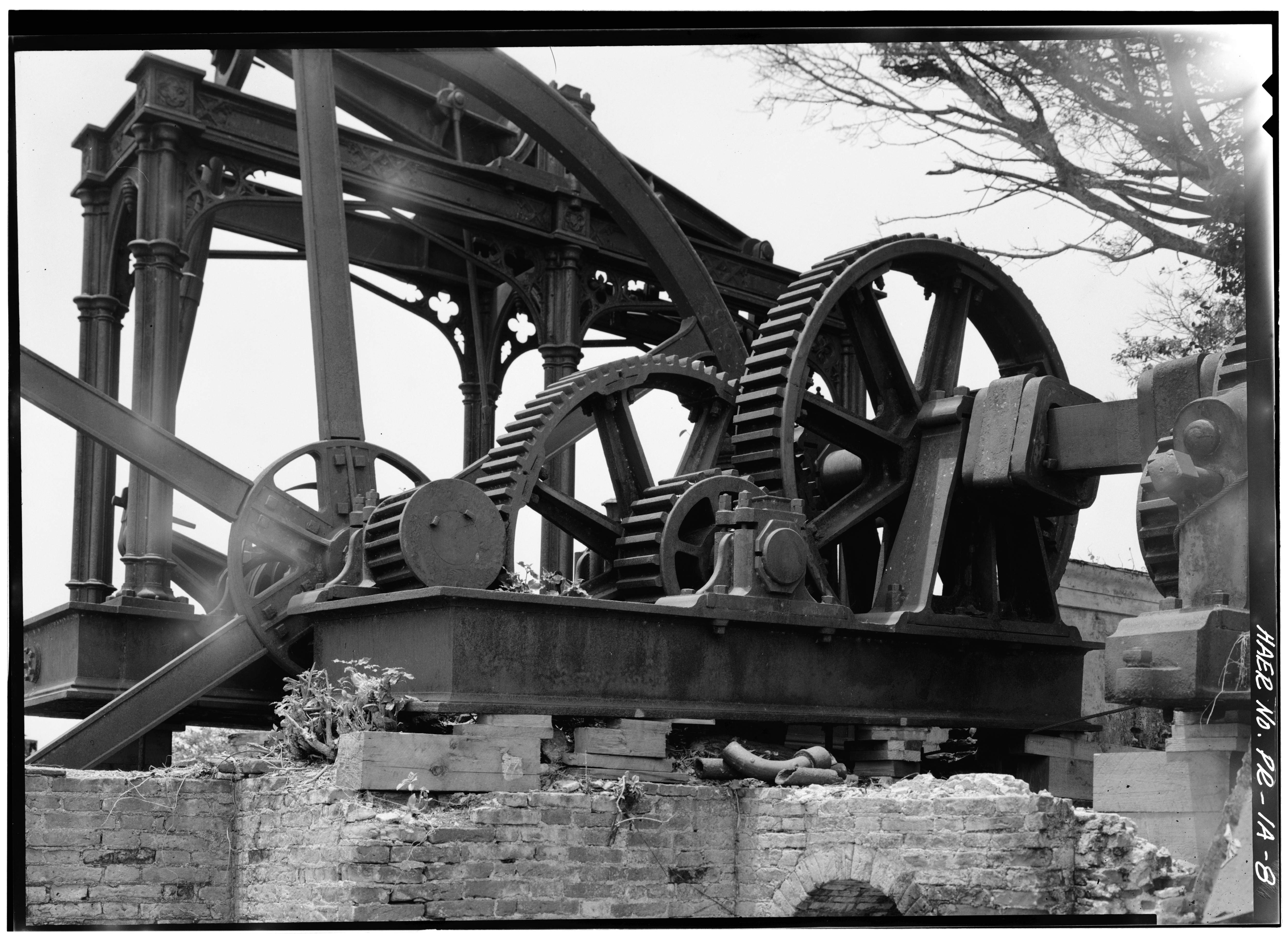 Hacienda Azucarera La Esperanza, Steam Engine & Mill, 2.65 Mi. N of PR Rt. 2 Bridge over Manati River, Manati, Manati, PR The La Esperanza's decorated steam engine is the only West Point Foundry beam engine known to survive. It is also the only known 6-column beam engine by any American manufacturer. Additionally, it is one of only eight beam engines of American manufacture known to exist anywhere. It was designated a National Historic Mechanical Engineering Landmark by the American Society of Mechanical Engineers in 1979.